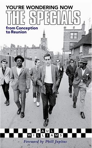 The cover of the new book by Paul Williams